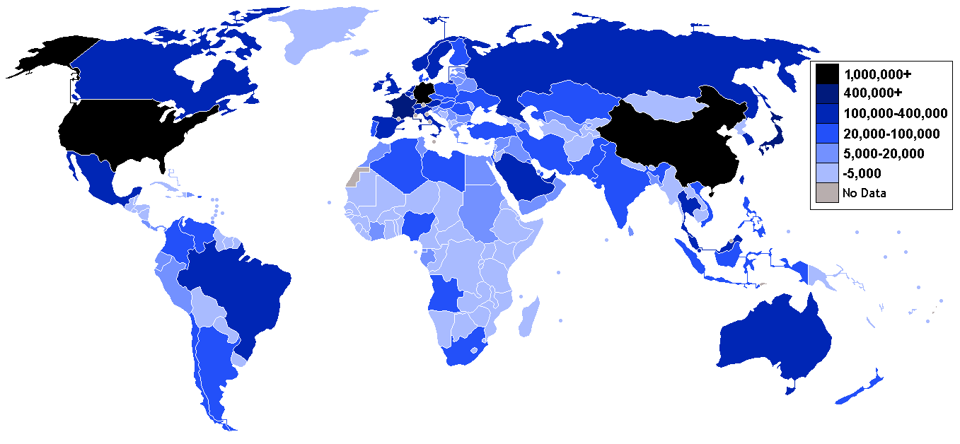 Exports in millions of dollars, as listed on CIA factbook accessed April 2006.